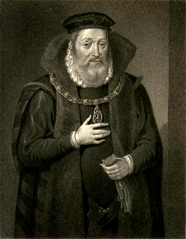 James Hamilton, Earl of Arran, Duke of Châtellerault (c1516-1575)